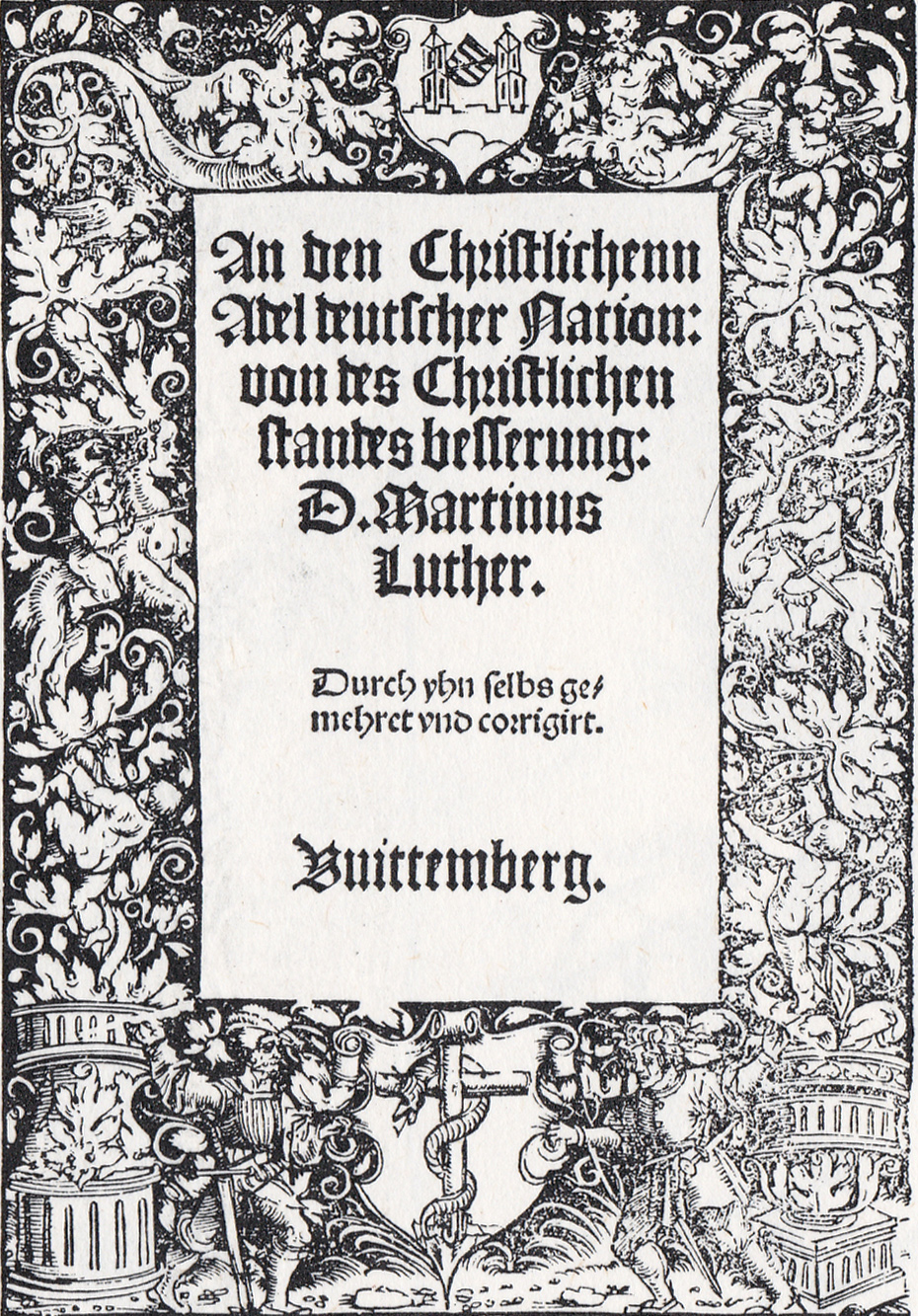 Title page to An den Christlichenn Adel Deutscher Nation (To the Nobility of the German Nation), printed by Melchior Lotter, Wittenberg 1520.